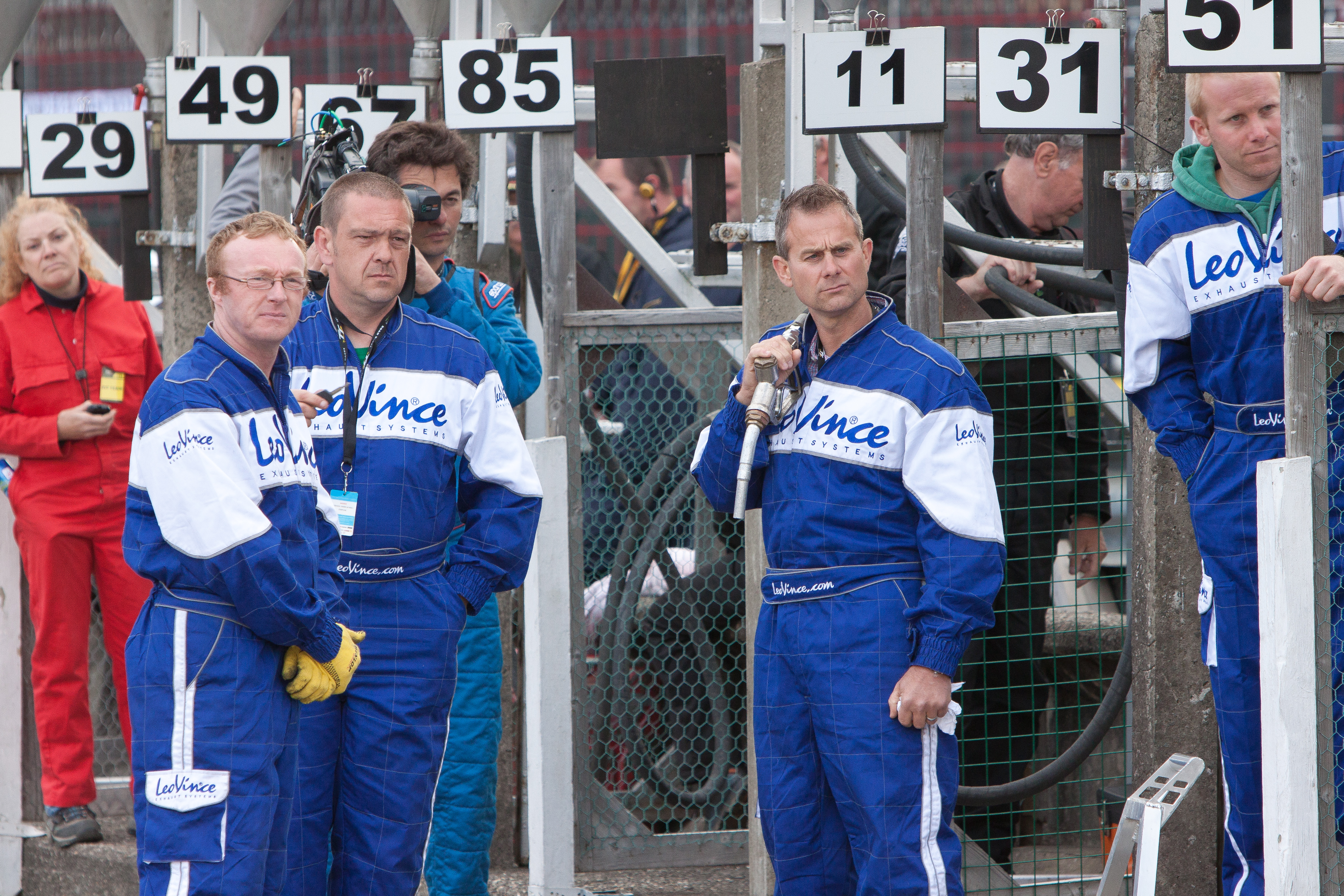 Former racer turned motorcycle TV commentator James Whitham as part of a Lightweight TT event refuelling crew in 2012